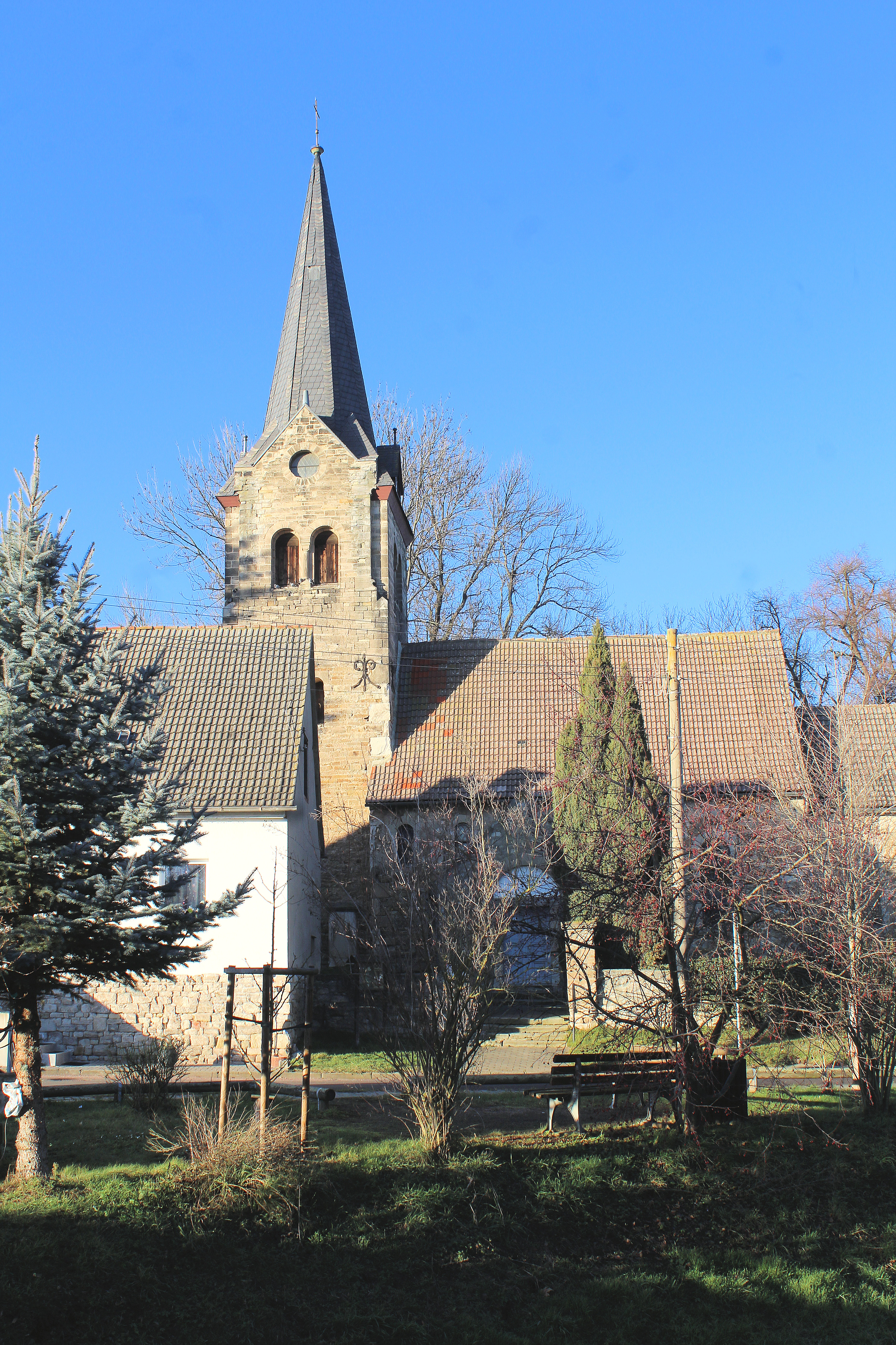 Freist (Gerbstedt), the Holy Cross church